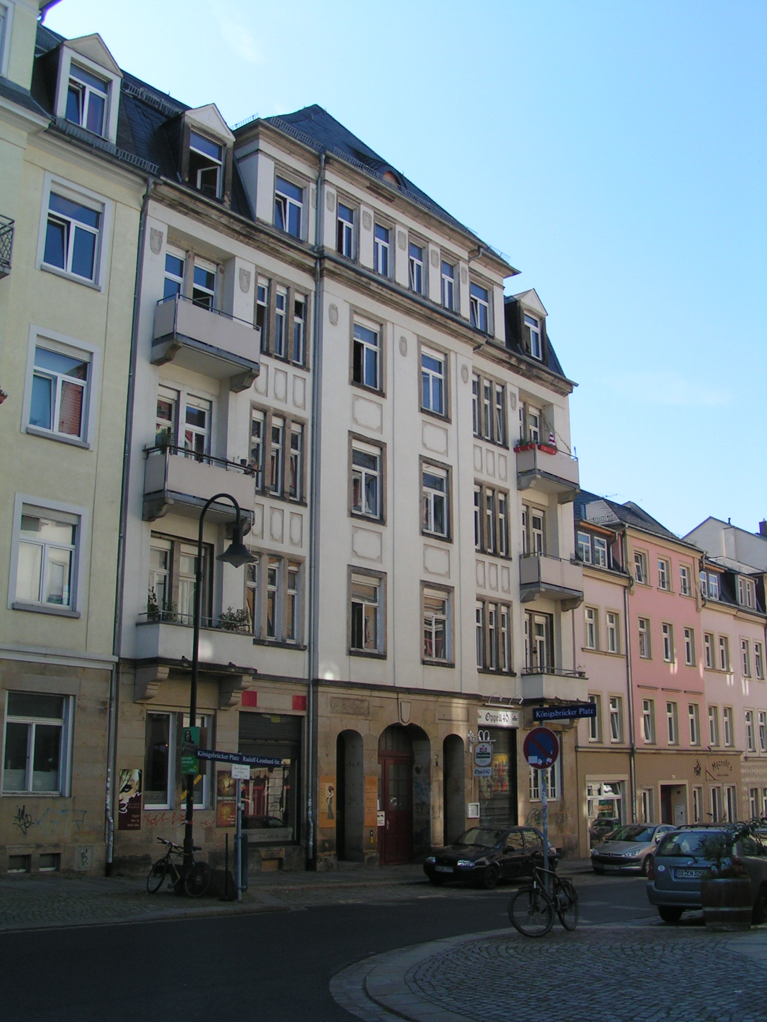 Dresden, Hechtviertel, Rudolf Leonhard Straße